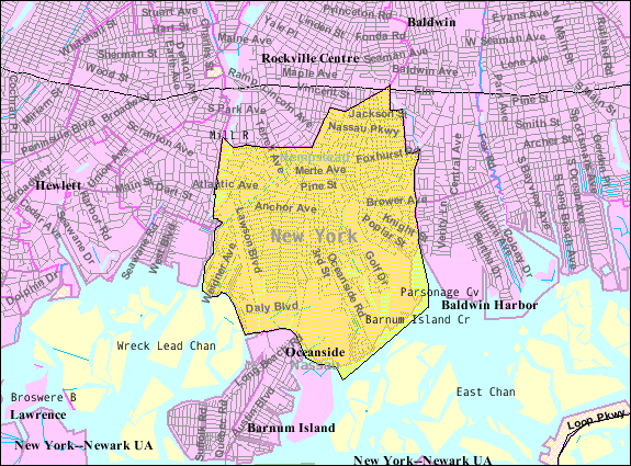 U.S. Census 2000 reference map for Oceanside, New York